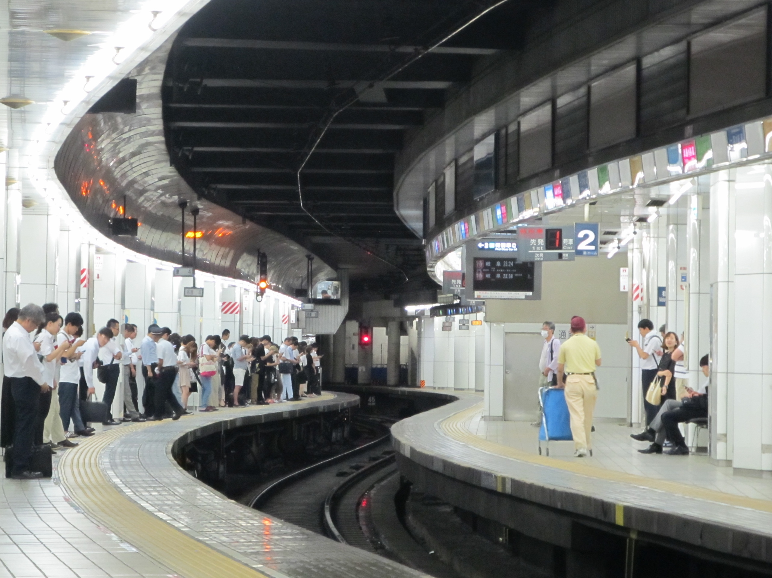 Nagoya Railroad Nagoya Main Line Meitetsu Nagoya Station Platform for Gifu and Inuyama